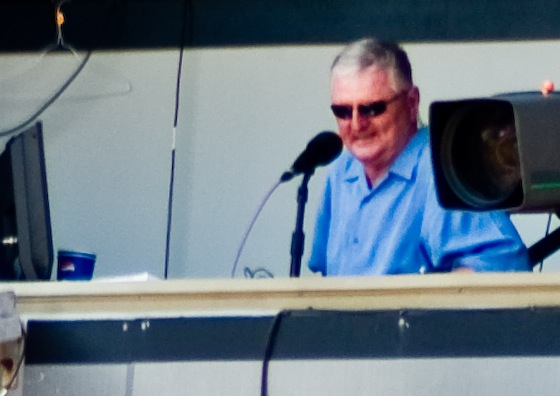 Love him or hate him, Ken Harrelson is famous for "he gone", "you can put it on the board.... yes!". Listening to the Hawk is like hanging out and watching the game with your uncle. Taken from left field at US Cellular Field during the White Sox 1 - 4 loss to the Blue Jays. Winning pitcher was Marcum, losing pitcher Vazquez and attendance was 36, 571.